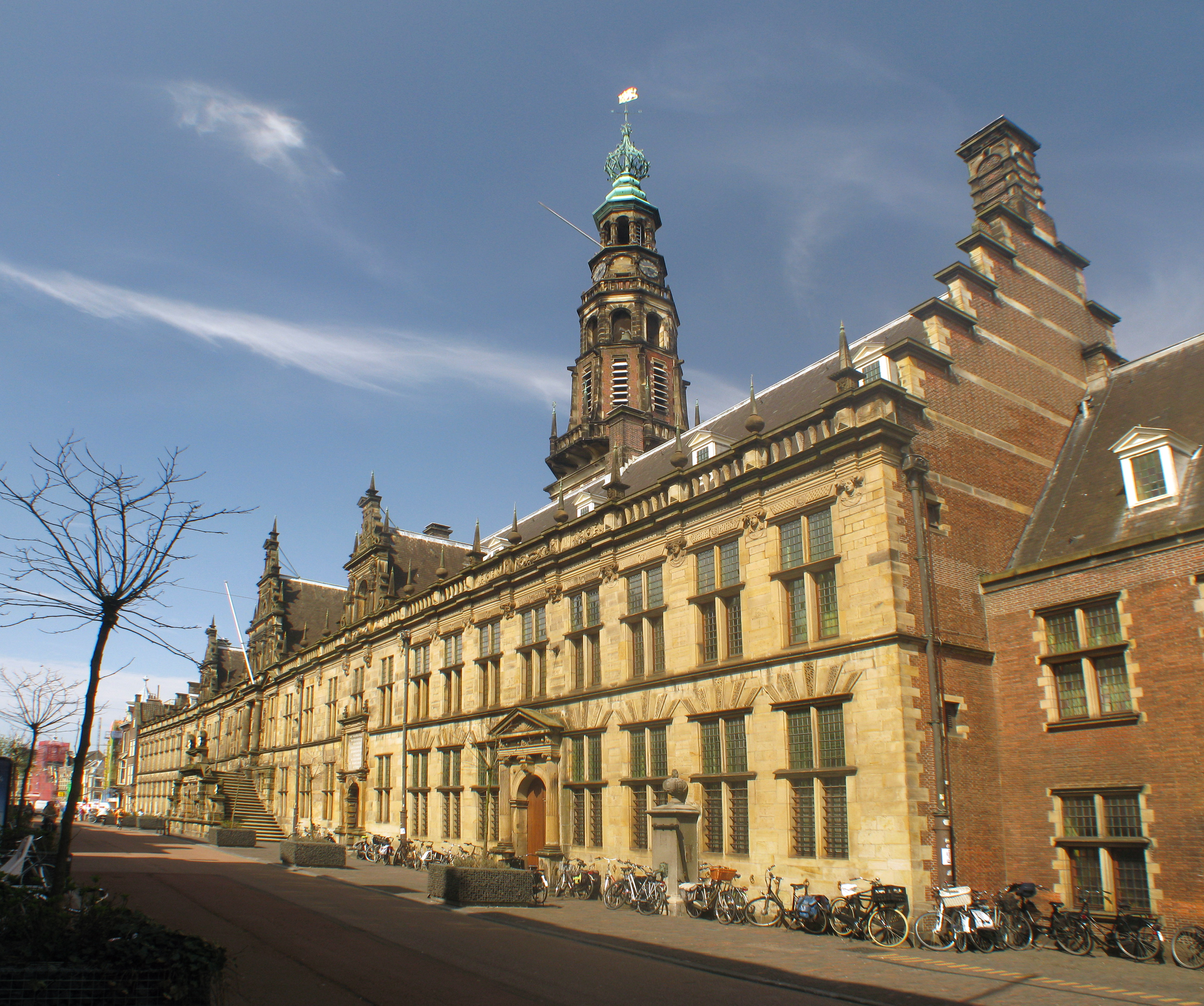 Leiden City Hall